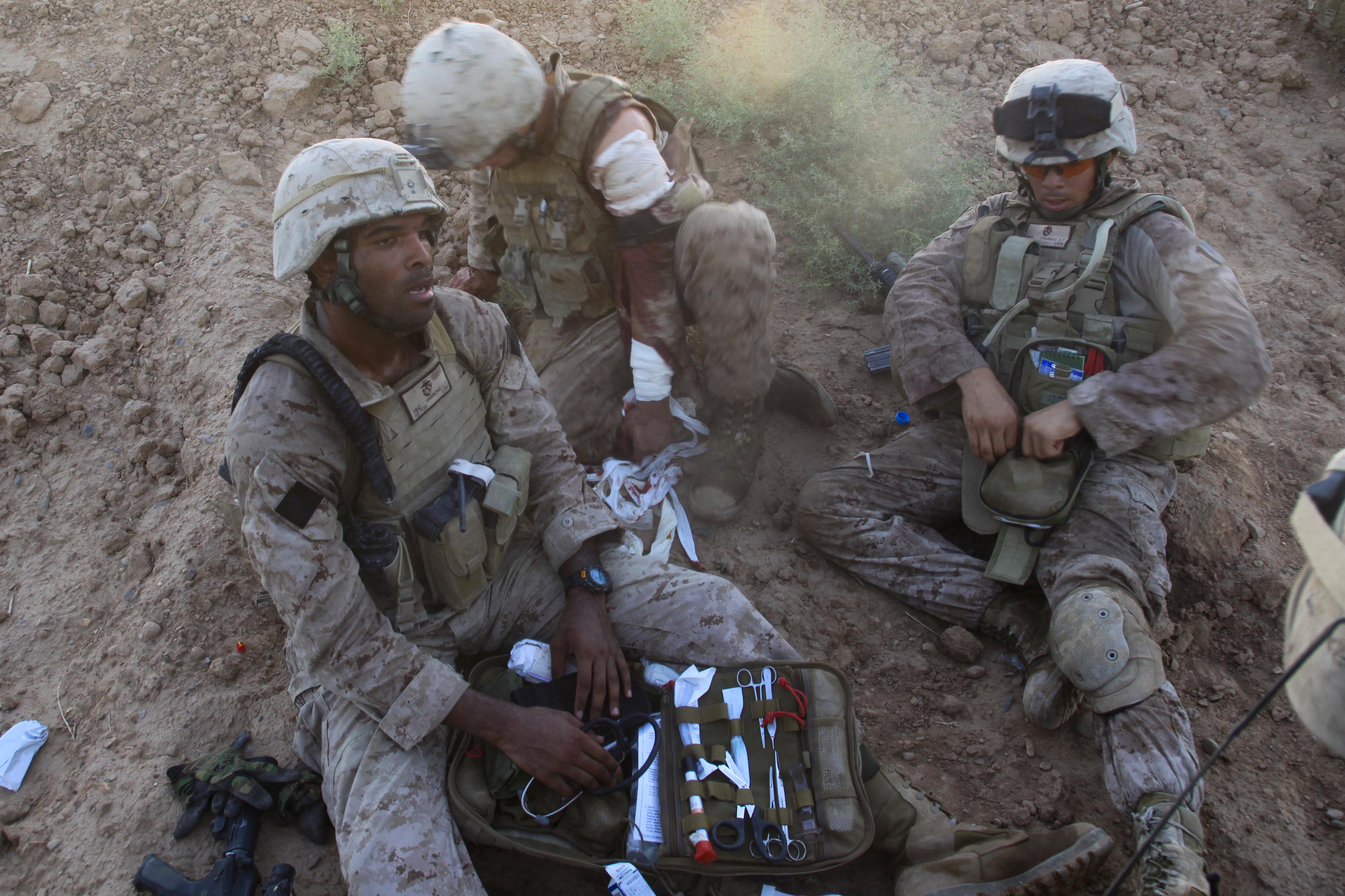 U.S. Navy Petty Officer 2nd Class Lamonte Hammond and Petty Officer 3rd Class Simon Trujillo with Bravo Company, 1st Battalion, 5th Marine Regiment treat a Marine who was wounded during a firefight in the Nawa district of Helmand province, Afghanistan, on Aug. 14, 2009. Navy corpsmen are first responders to wounded Marines on the battlefield. The battalion is deployed with Regimental Combat Team 3 to conduct counter insurgency operations in partnership with Afghan National Security Forces in southern Afghanistan.